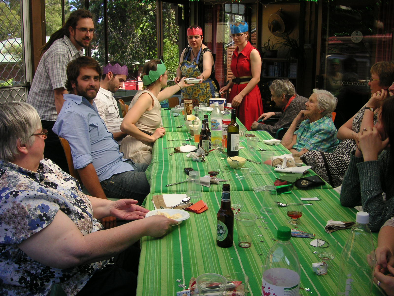 Christmas in Australia, serving the Christmas Pudding.